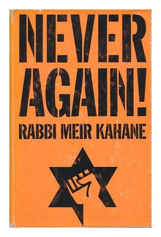 Cover of the book by Meir Kahane